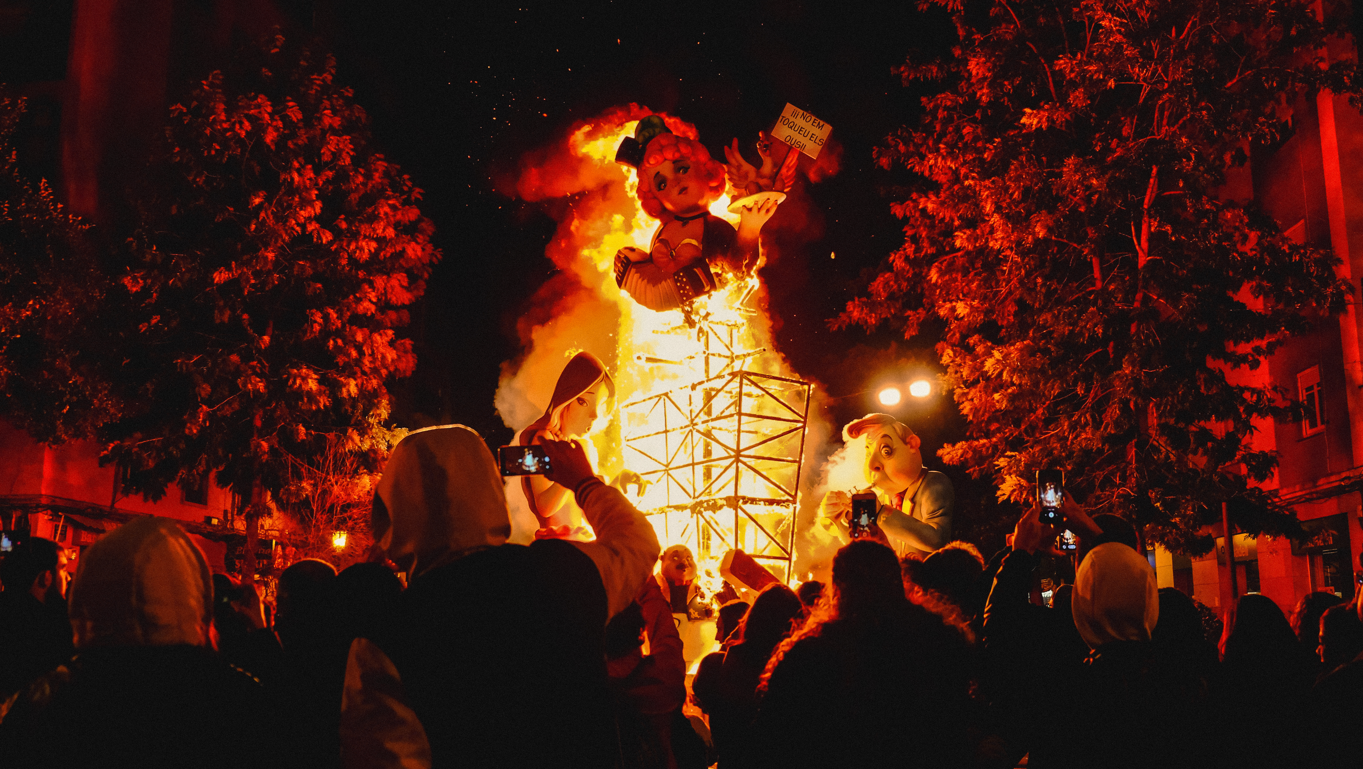 This is a photography of a Folklore festival in Spain (Wikidata id Q1143768).